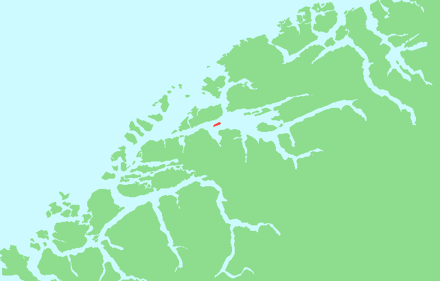 Locator map of Tautra, Møre og Romsdal, Norway